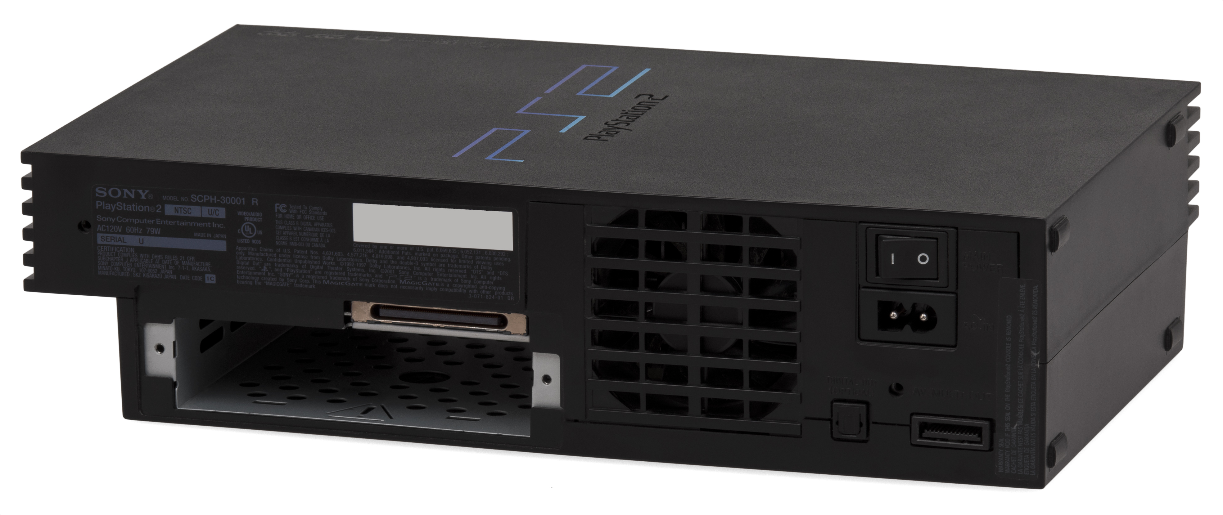 A Sony PlayStation 2, model SCPH-30001. Showing the back with hard drive expansion port cover removed.